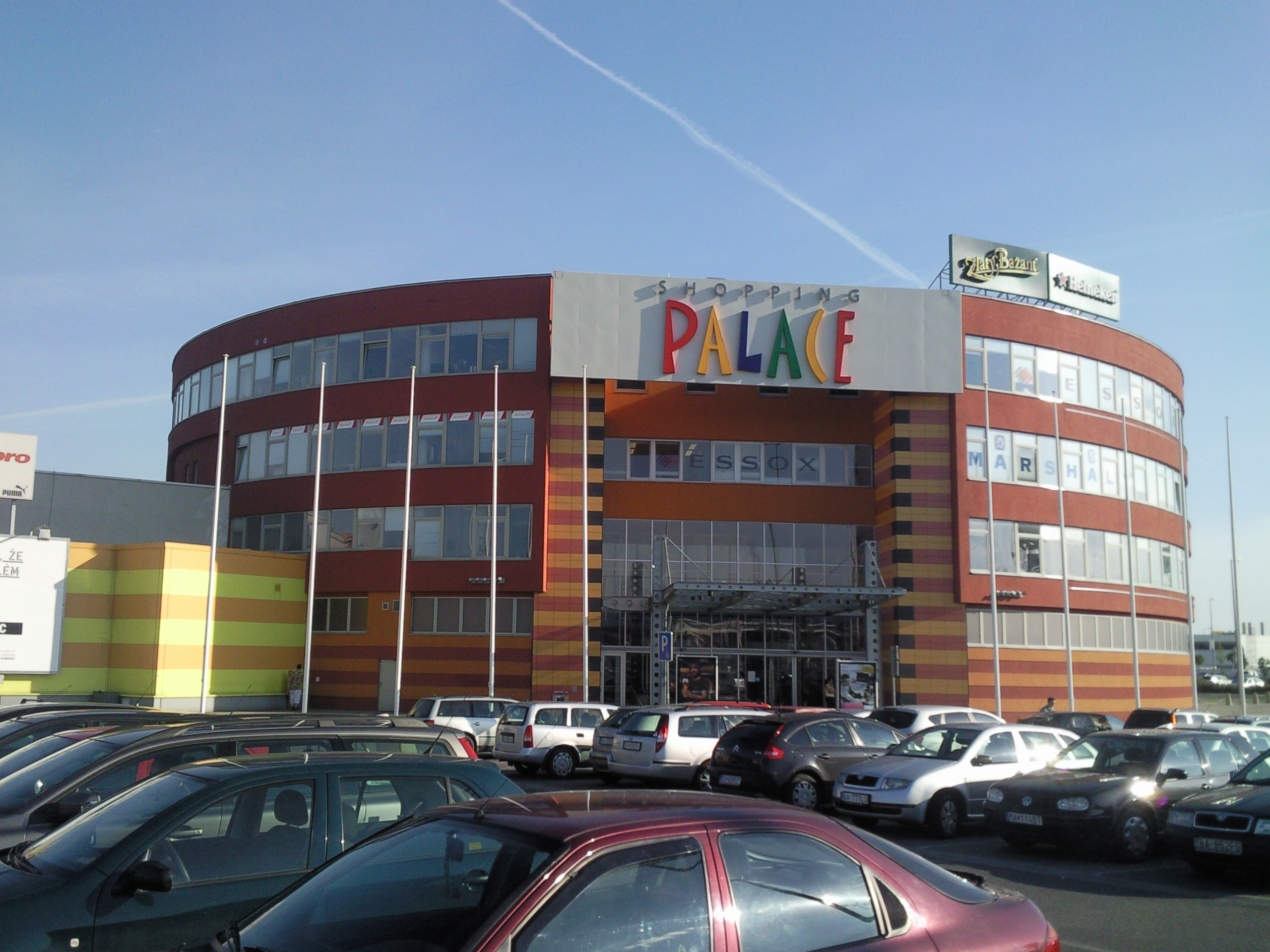 Shopping Palace, Bratislava